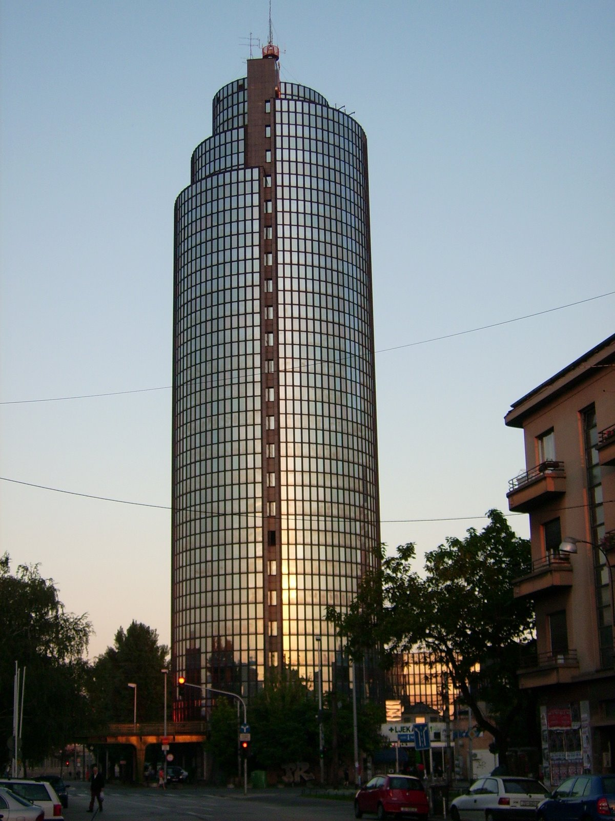 Cibona Tower.